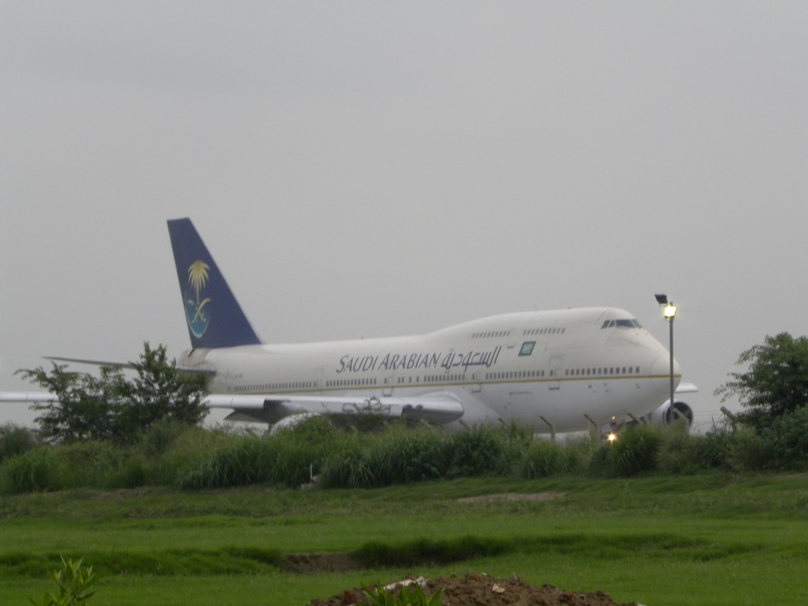 B747-300 Saudi Arabia aircraft at Lahore Airport